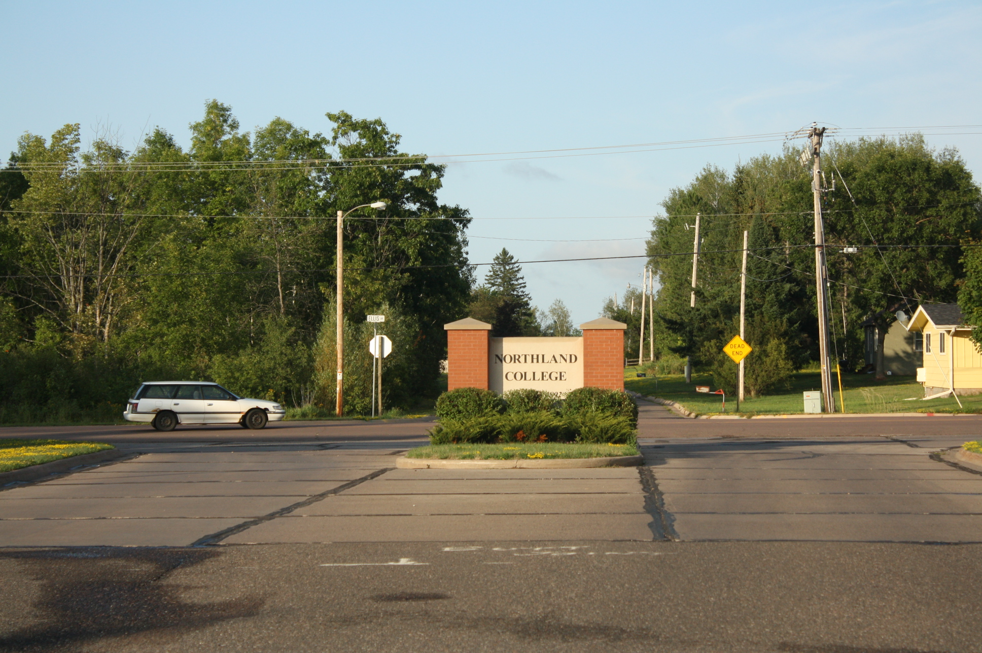 The entrance for Northland College (Wisconsin).